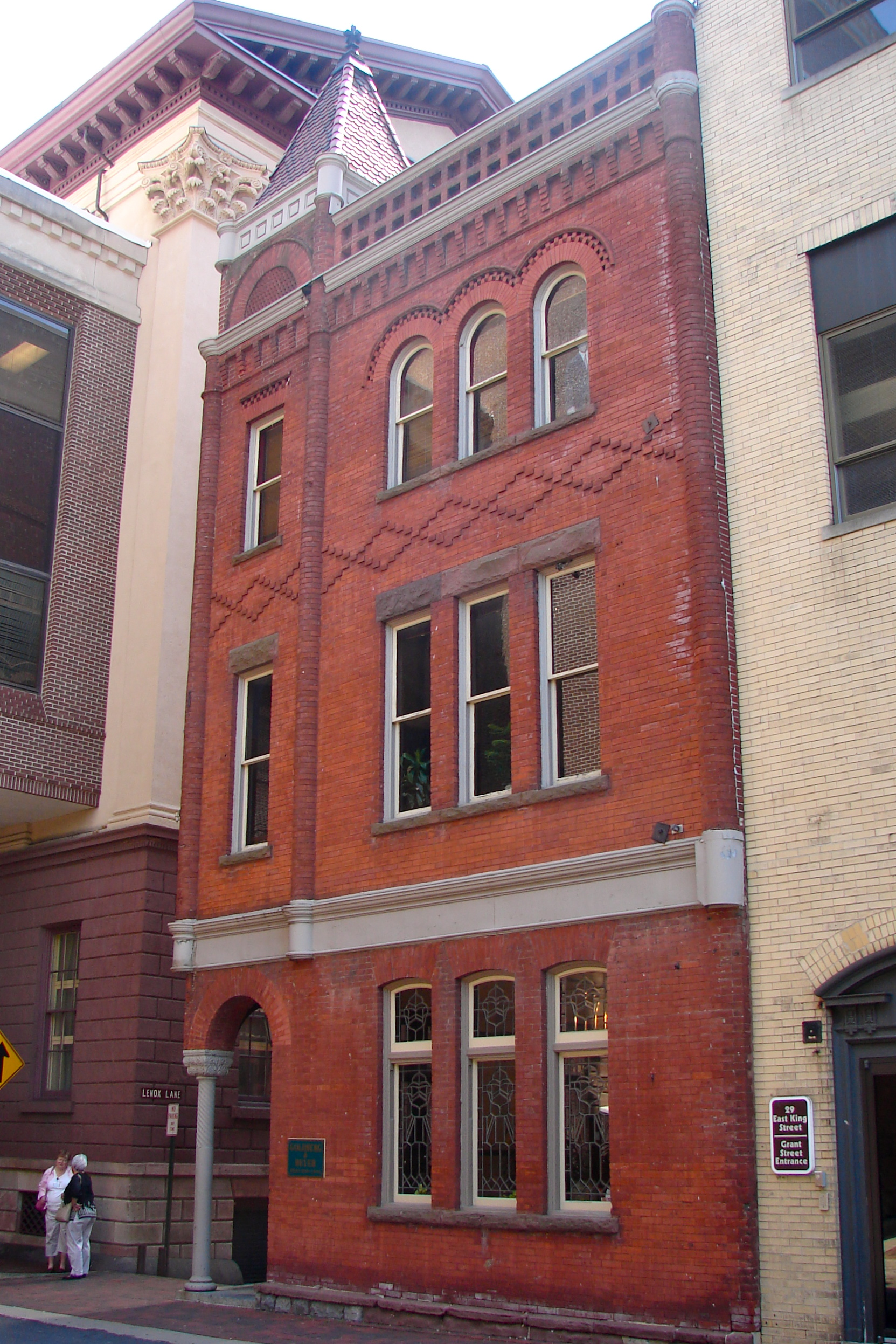 Charlie Wagner's Cafe, on the NRHP since December 29, 1983, at 40 East Grant Street, hidden behind the County Courthouse in the Central Business District of Lancaster, Lancaster County, Pennsylvania